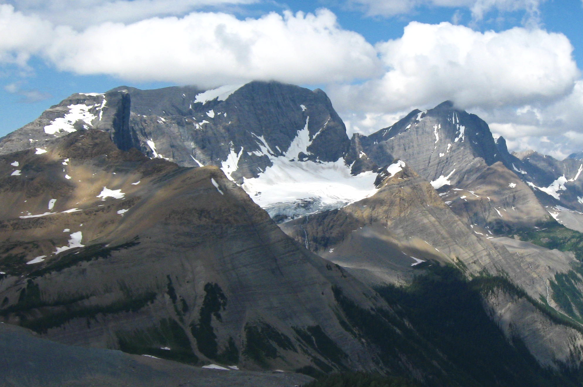 Hewitt Peak and Mount Gray in Kootenay National Park, Canada